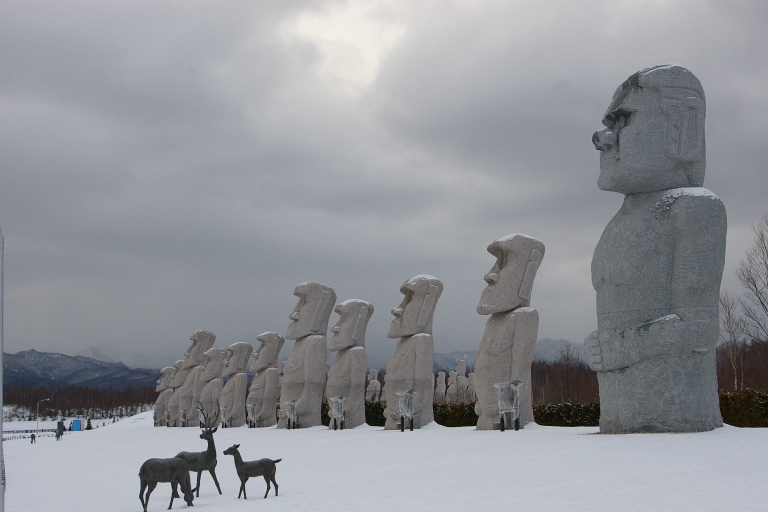 The MOAI image, in the Takino cemetery of Sapporo city.